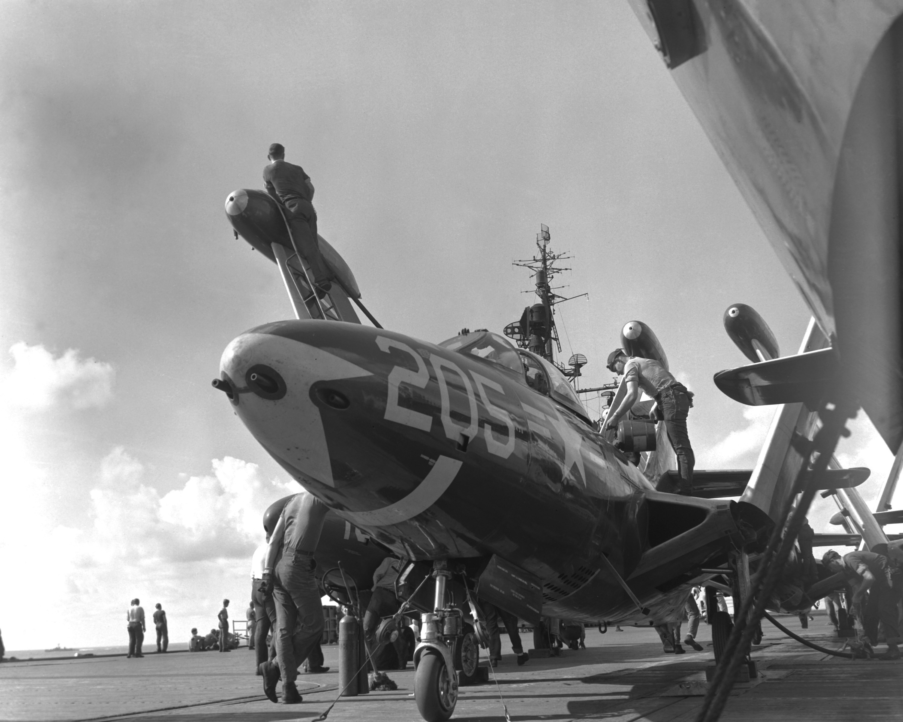 A Grumman F9F-2 Panther of fighter squadron VF-52 Knight Riders aboard the U.S. Navy aircraft carrier USS Valley Forge (CV-45) on 4 July 1950. VF-52 was assigned to Carrier Air Group 5 (CVG-5) for a deployement to the Western Pacific from 1 May to 1 December 1950.